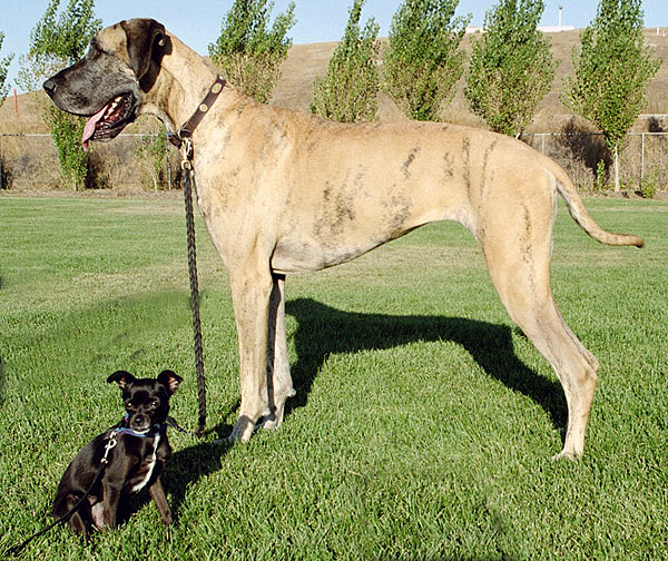 Great Dane and Chihuahua mixed-breed